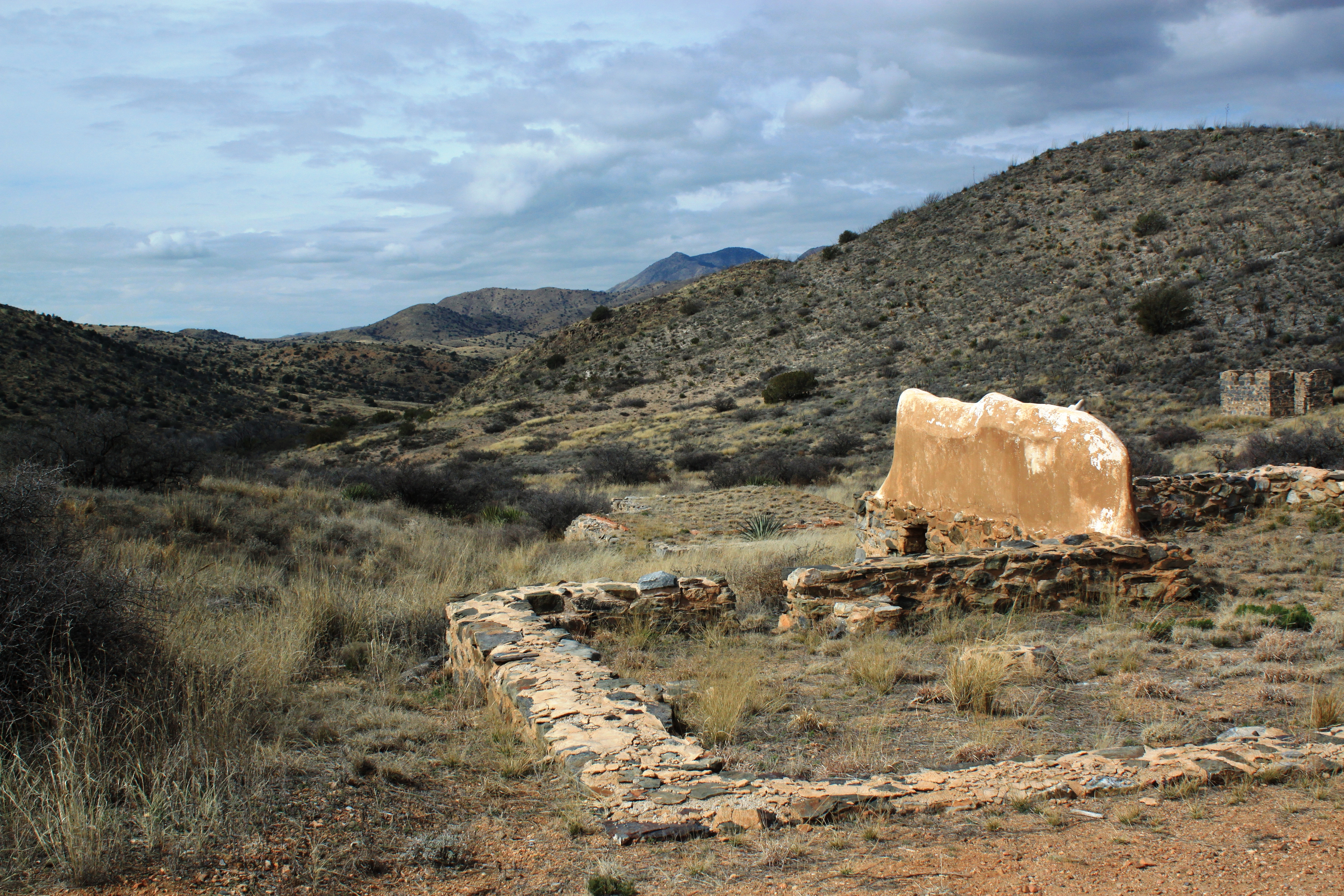 View of Fort Bowie ruins in the foreground with Apache Spring and Apache Pass in the distance.